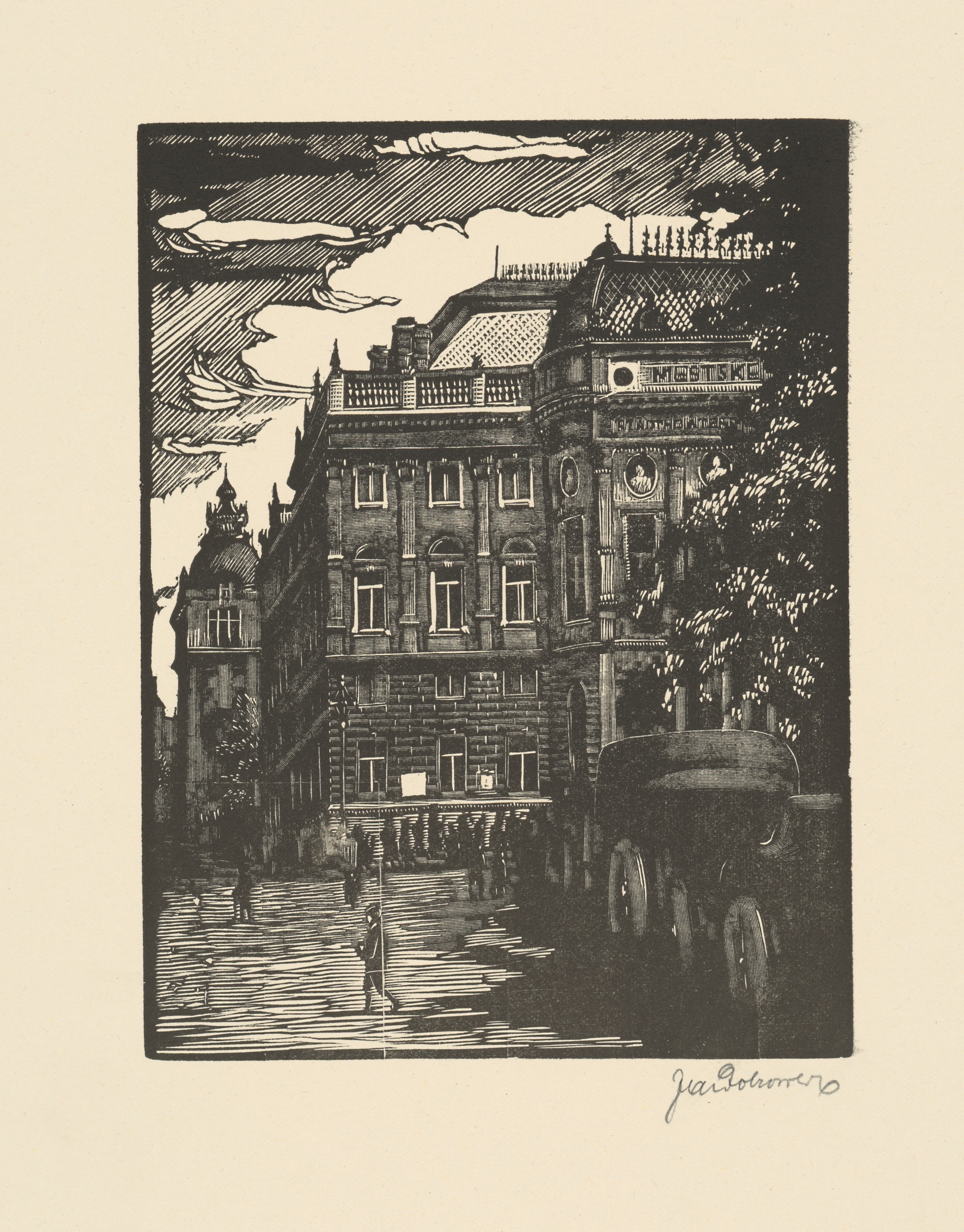 Mestské divadlo, Bratislava / Stadttheater, Pressburg (today's old building of the Slovak National Theatre)